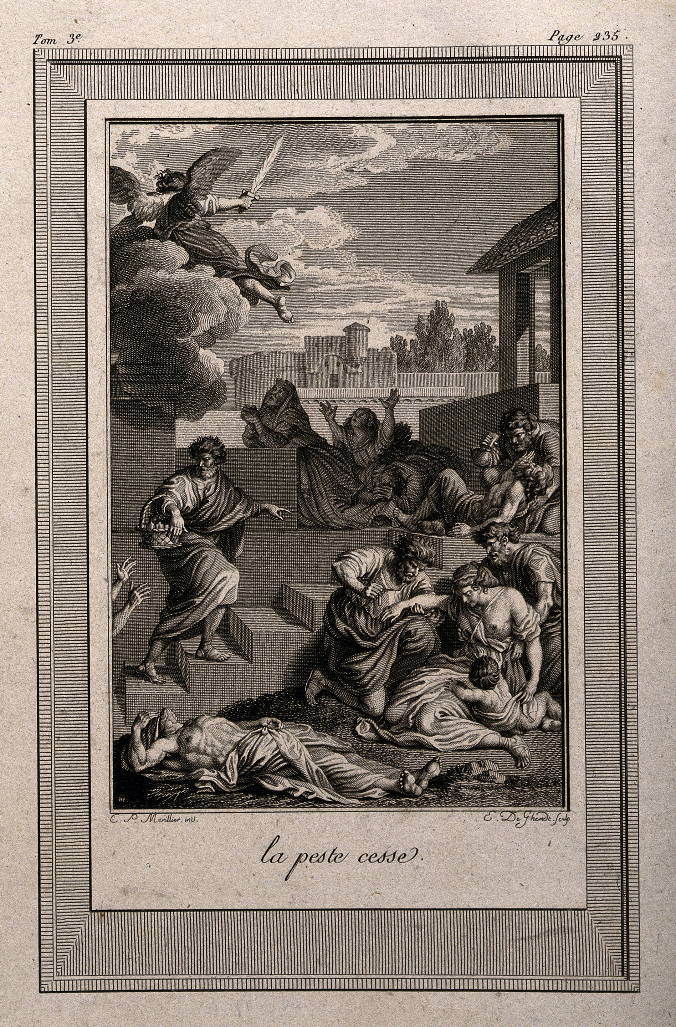 The cessation of plague, brought about by the angel of God. Etching by E. de Ghendt after C. Marillier. Iconographic Collections Keywords: Emmanuel-Jean-Nepomucéne de Ghendt; Clément-Pierre Marillier